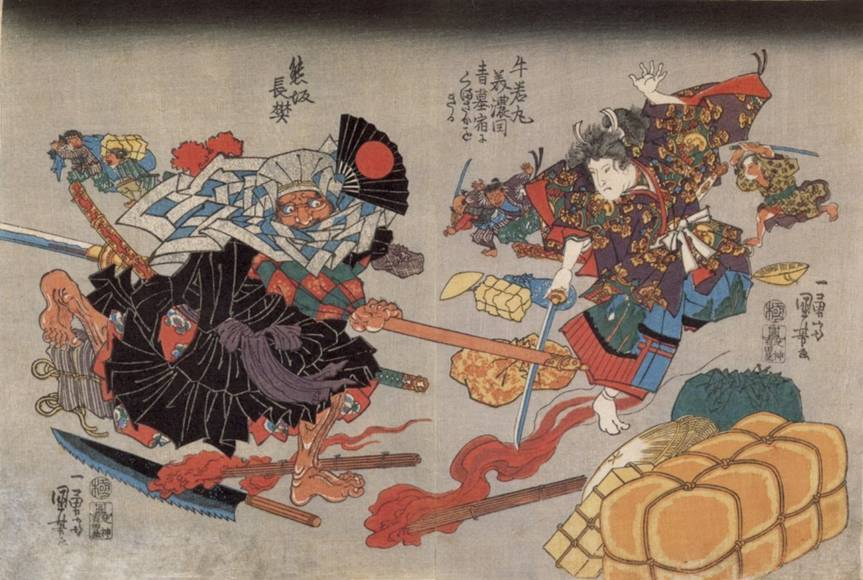 Fight between Ushiwaka Maru (Minamoto no Yoshitsune) and Kumasaka Chôhan at the inn; bales and a torch on the ground, and Kisanda in the distance"